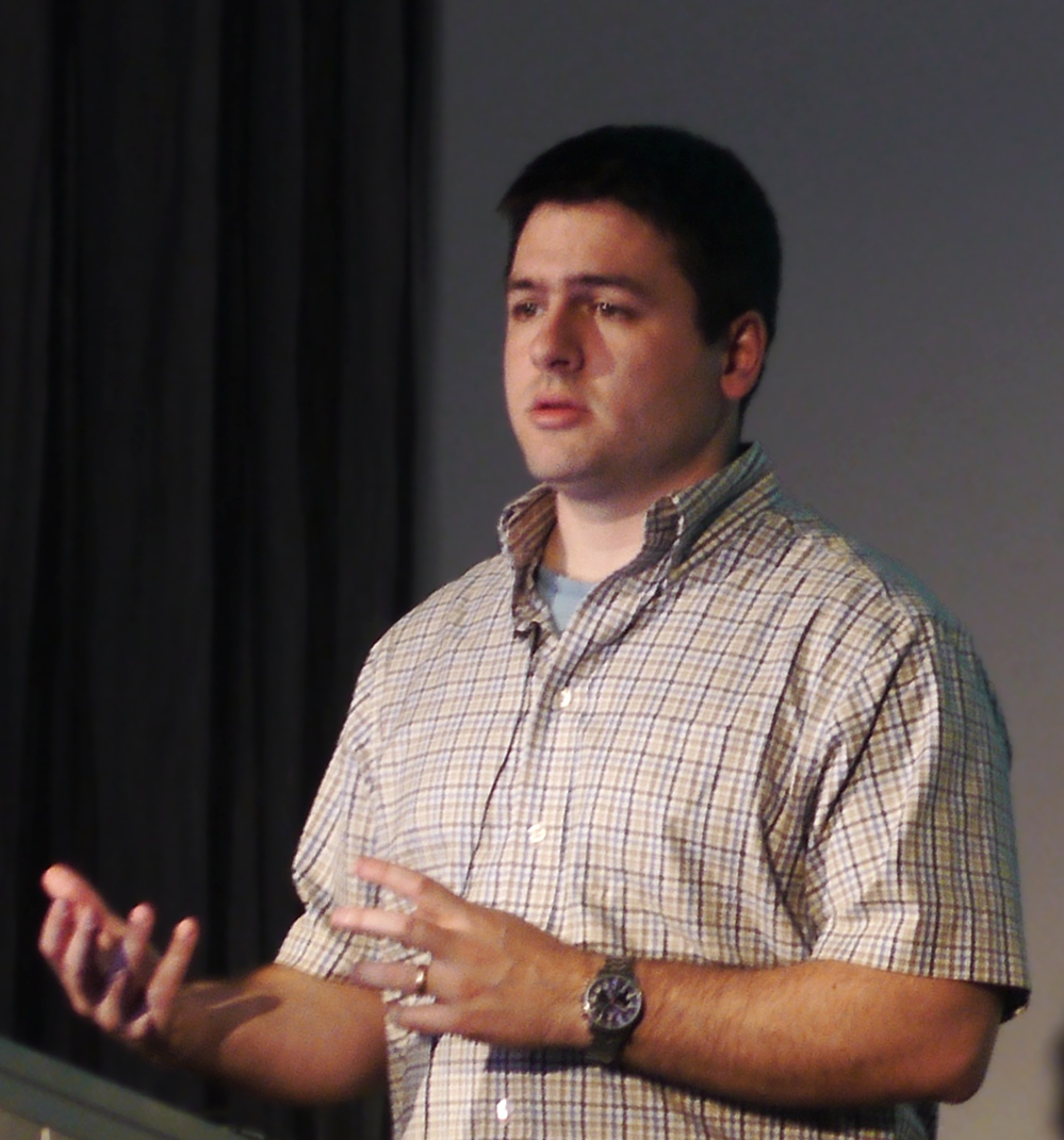 Jean-Marc Valin presenting “Opus, the Swiss Army Knife of Audio Codecs” on 2012 in Ballarat